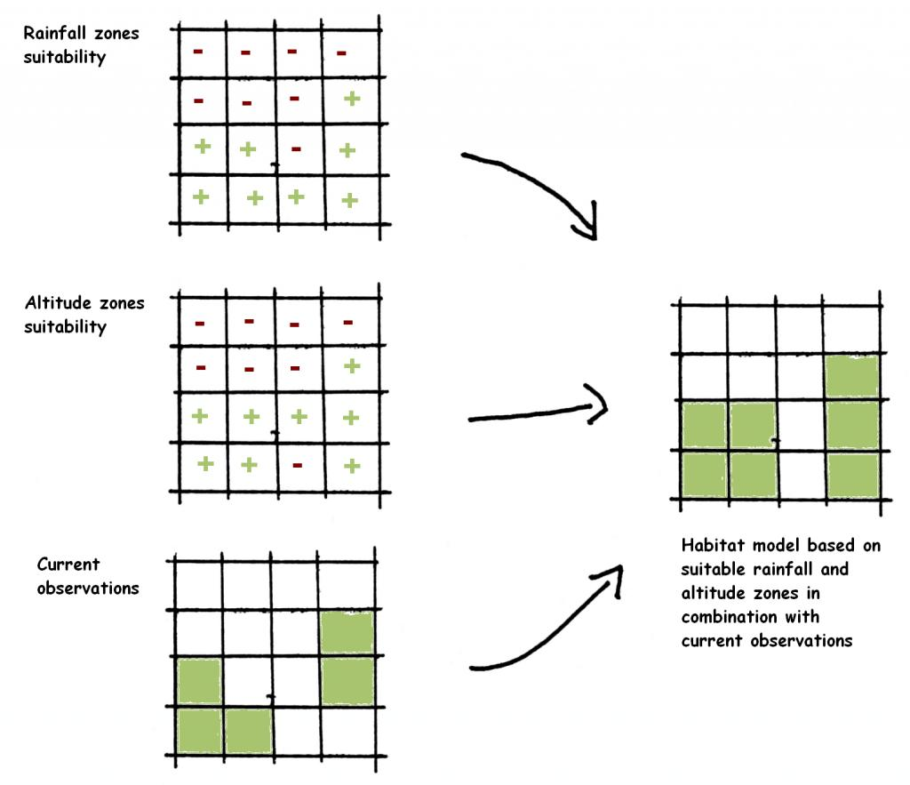 Figure showing how to predict habitats